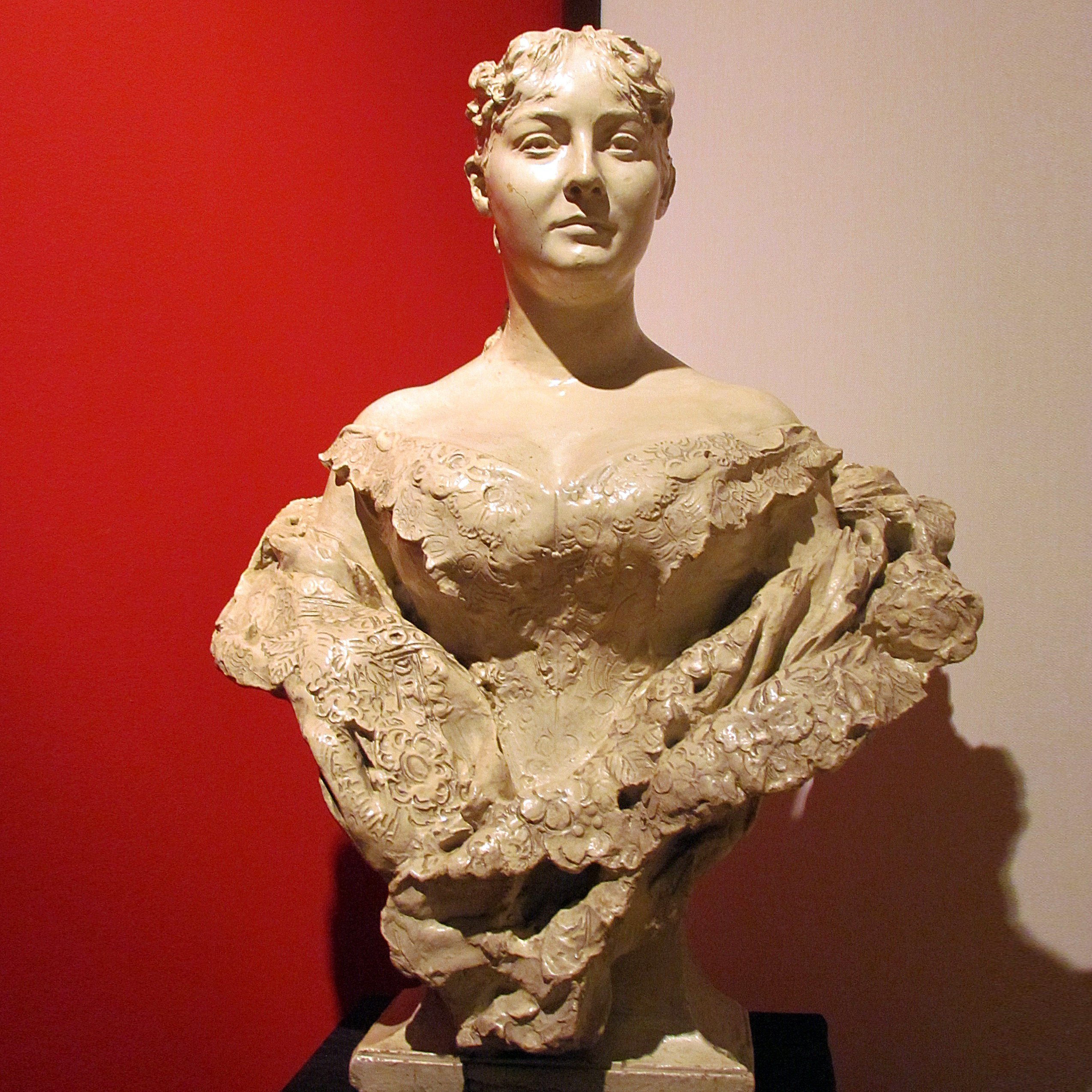 Alajos Strobl, buist of Natalie Obrenović Queen of Serbia, plaster, Historical Museum of Serbia